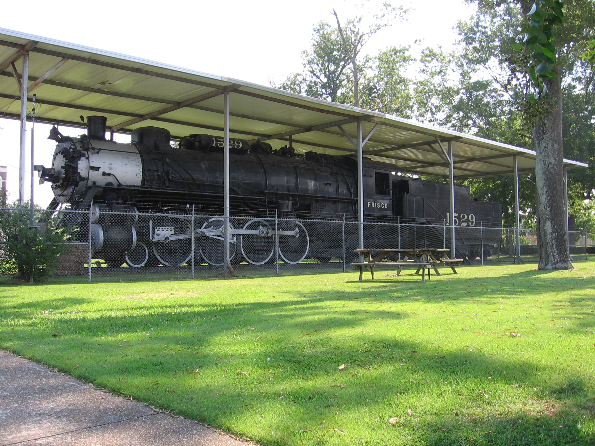 Frisco 1529, located in Frisco Park, Amory, Mississippi; 2005